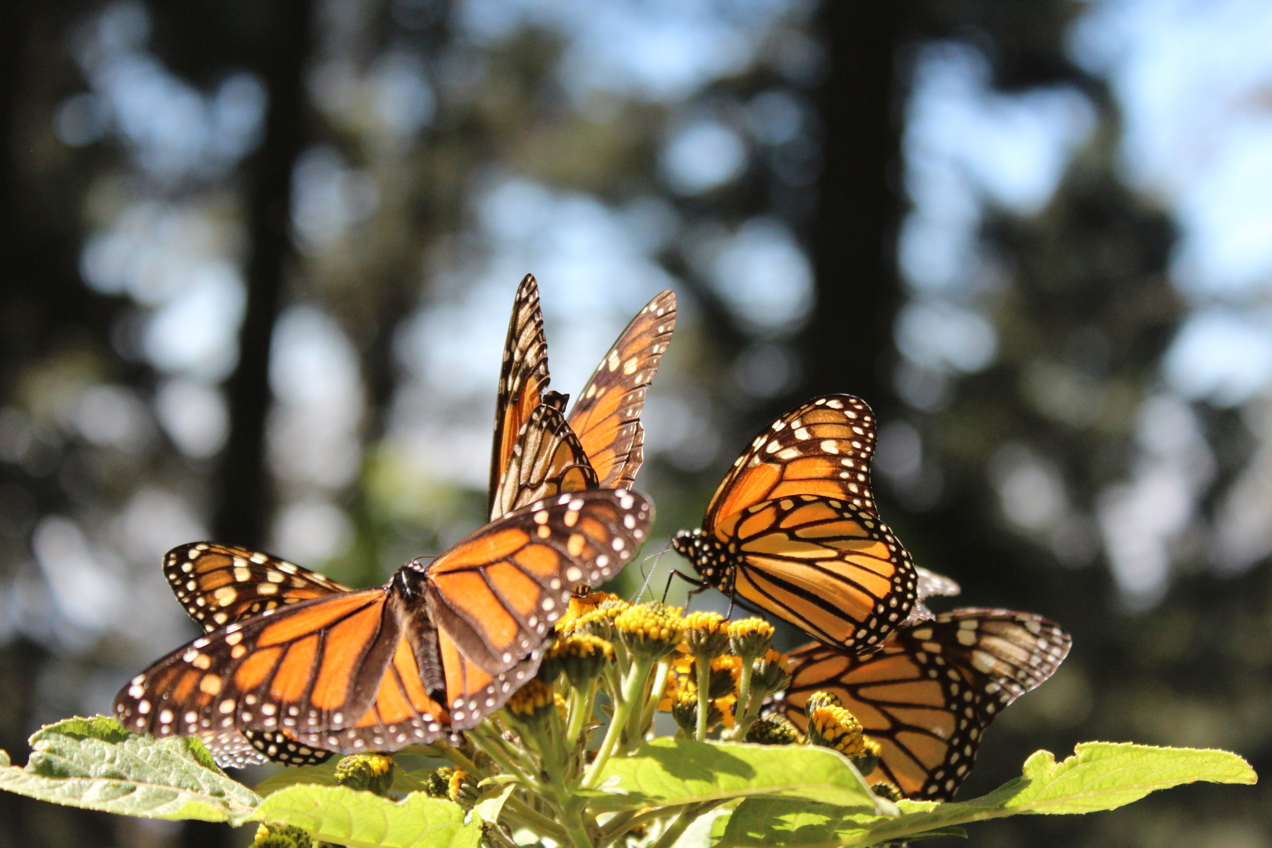 Monarc Butterfly Reserve, Michoacan, Mexico